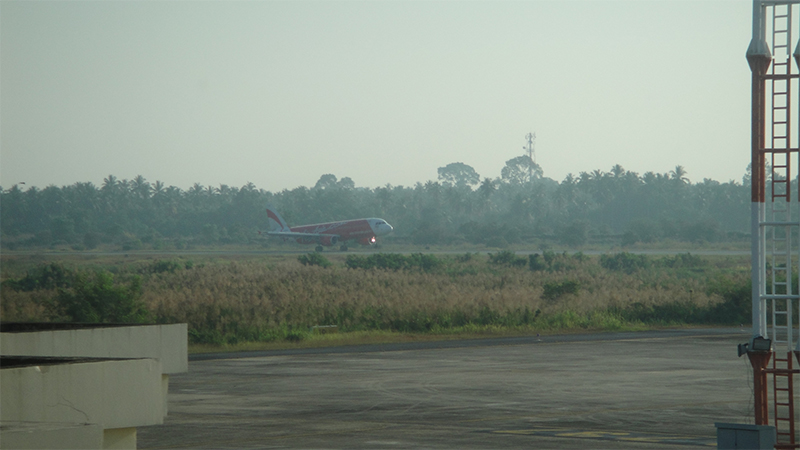 AirAsia Landing at Nakhon si thammarat Airport